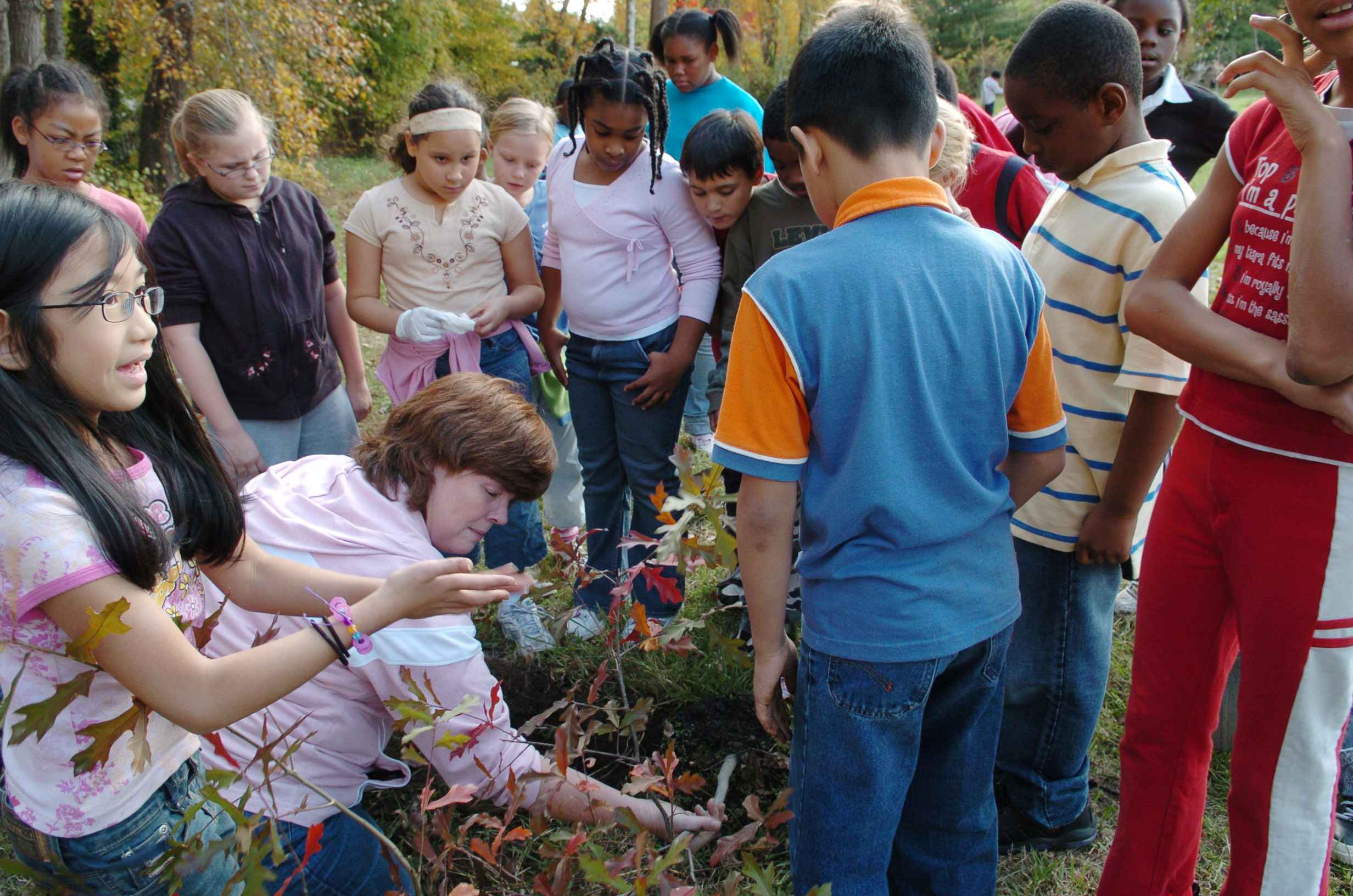 Image title: Children get instructions from teacher on how to plant trees in their schooyard Image from Public domain images website